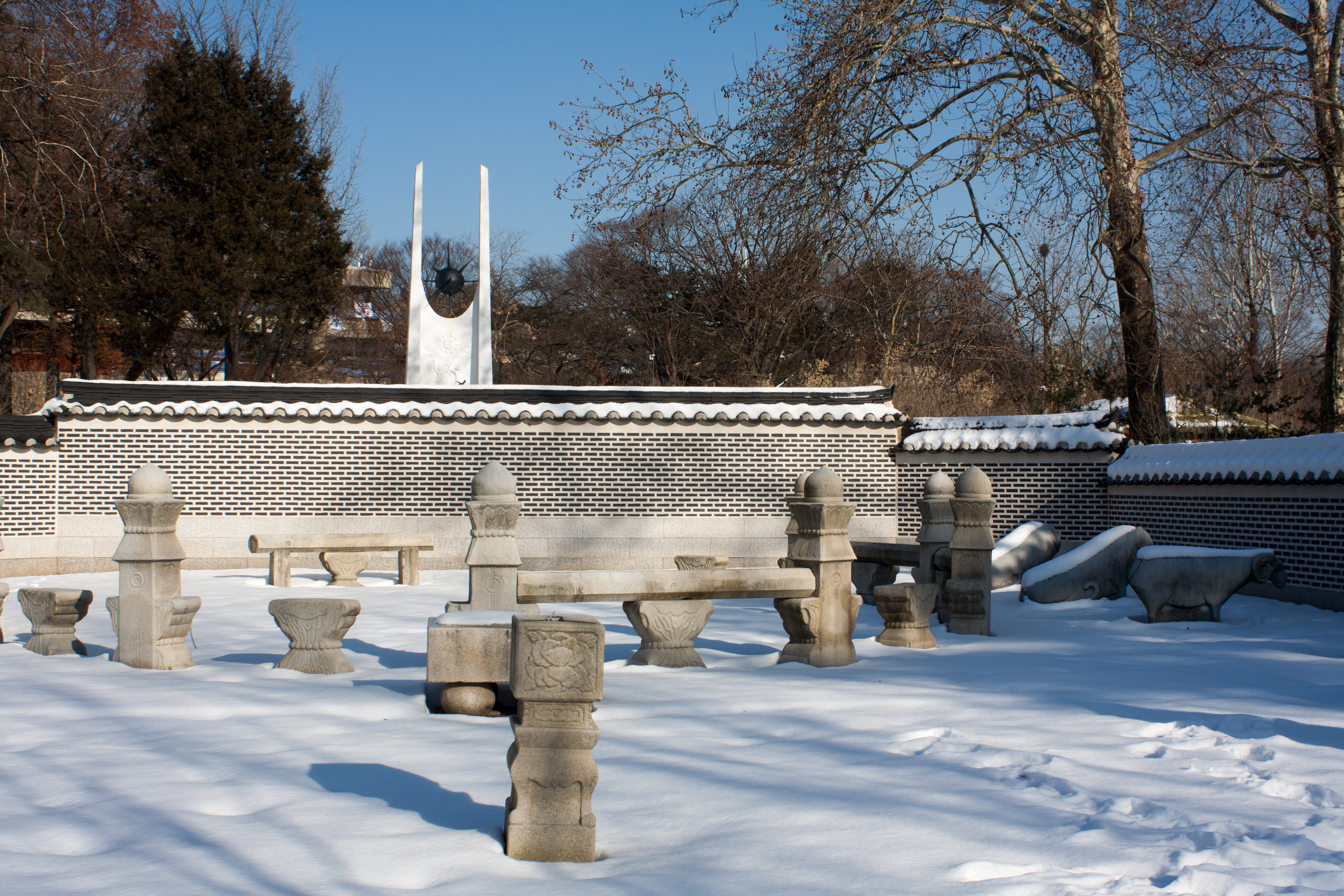 Stone statues of Yugangwon which is Empress Sunmyeong's old tomb in Gwangjin-gu, Seoul